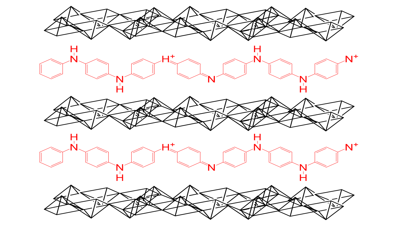 Figure 2 for Chem 171